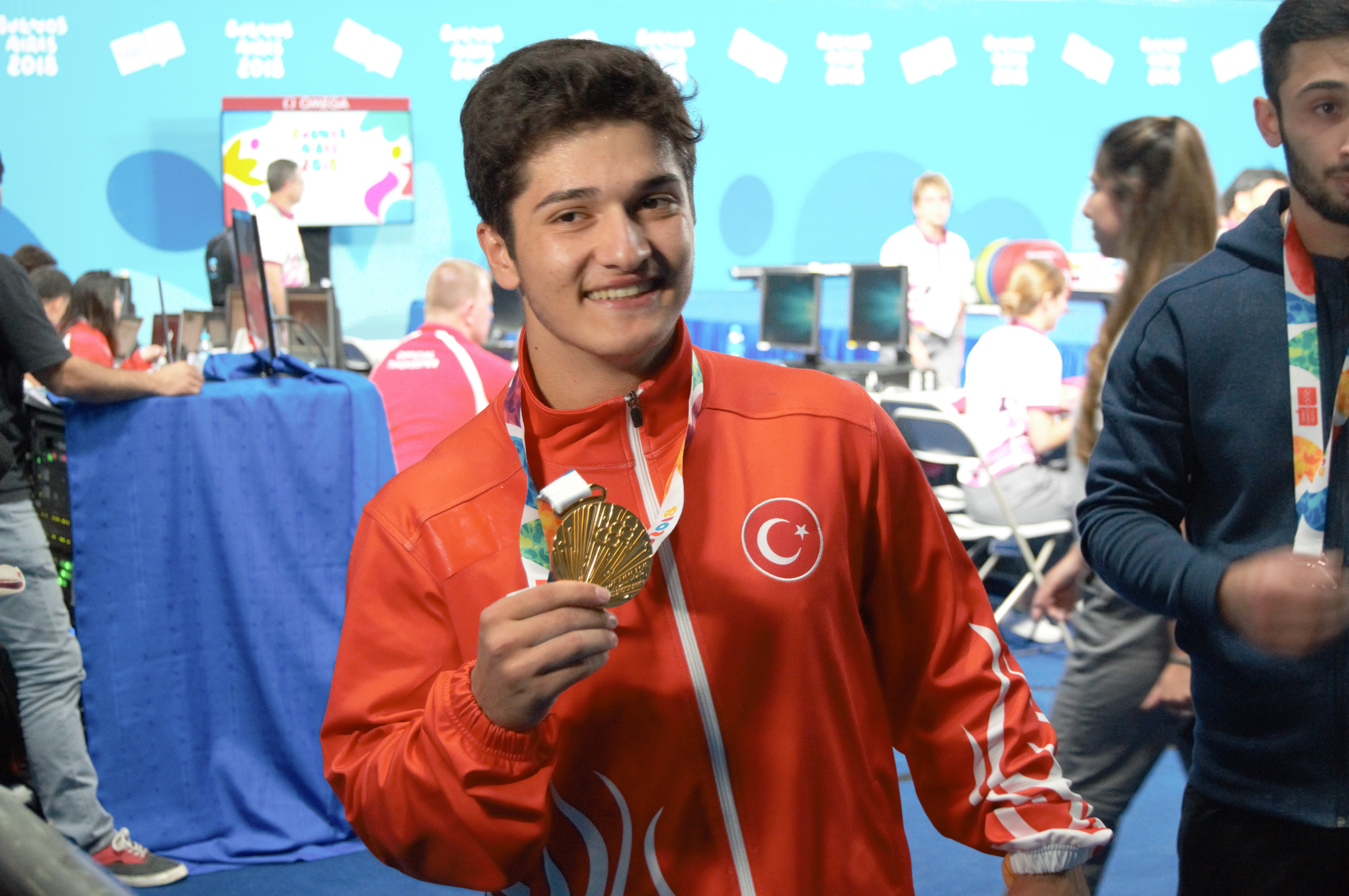 Victory ceremony of the Boys' 69 kg Weightlifting competition of the 2018 Summer Youth Olympics.